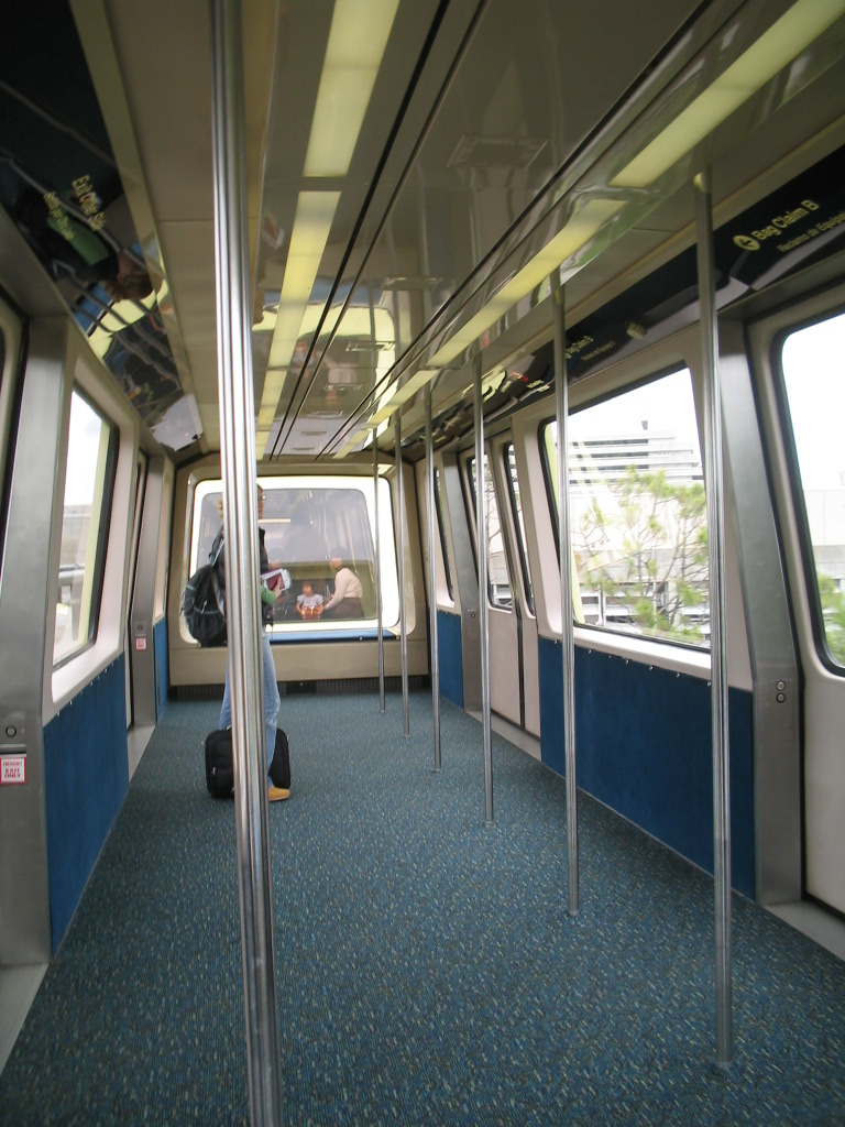 people mover at Orlando International Airport, may 2005